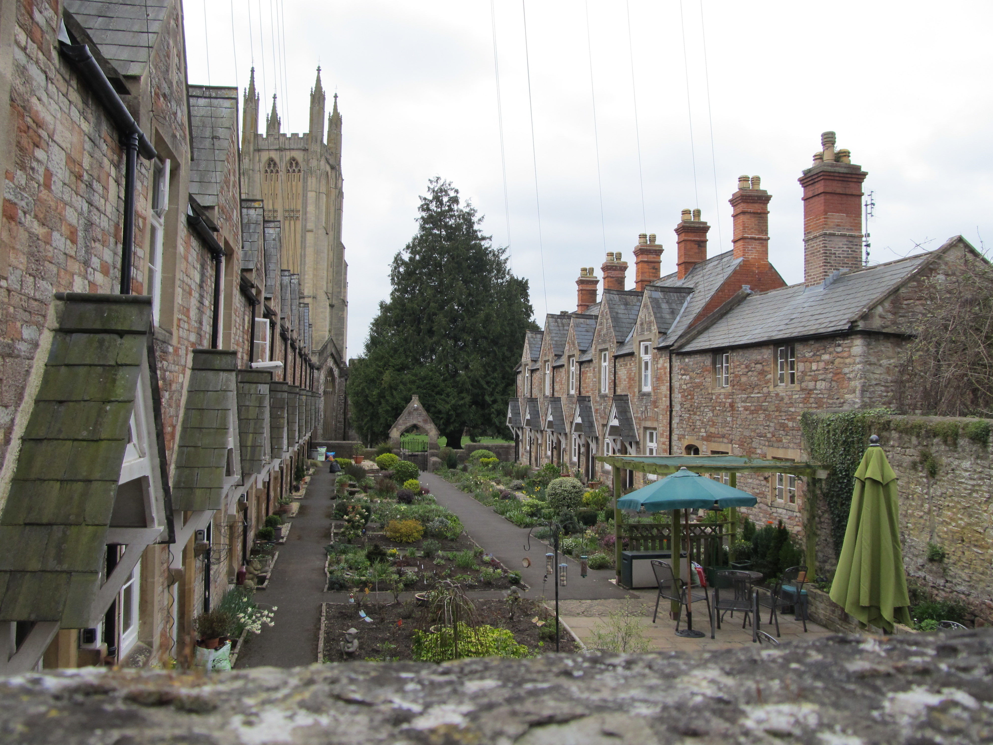 Priest Row Almshouses